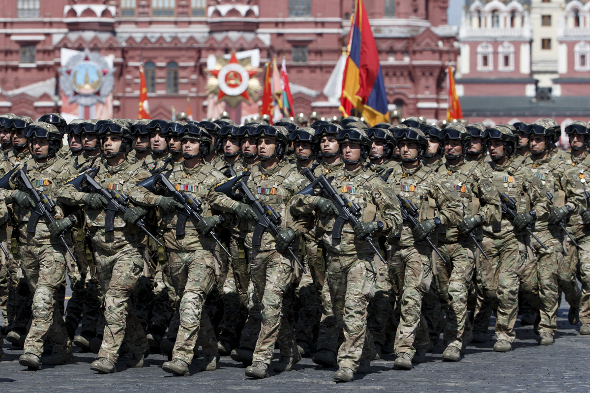 Парад Победы в Москве, посвященный 75-й годовщине Победы в Великой Отечественной войне